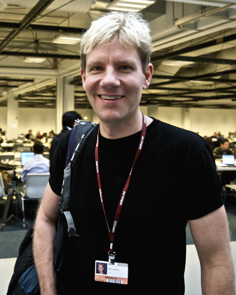 Bjørn Lomborg. Danish author, academic, and environmental writer.